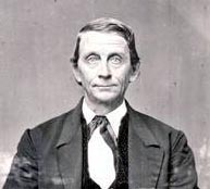 George Middleton, US Representative from New Jersey